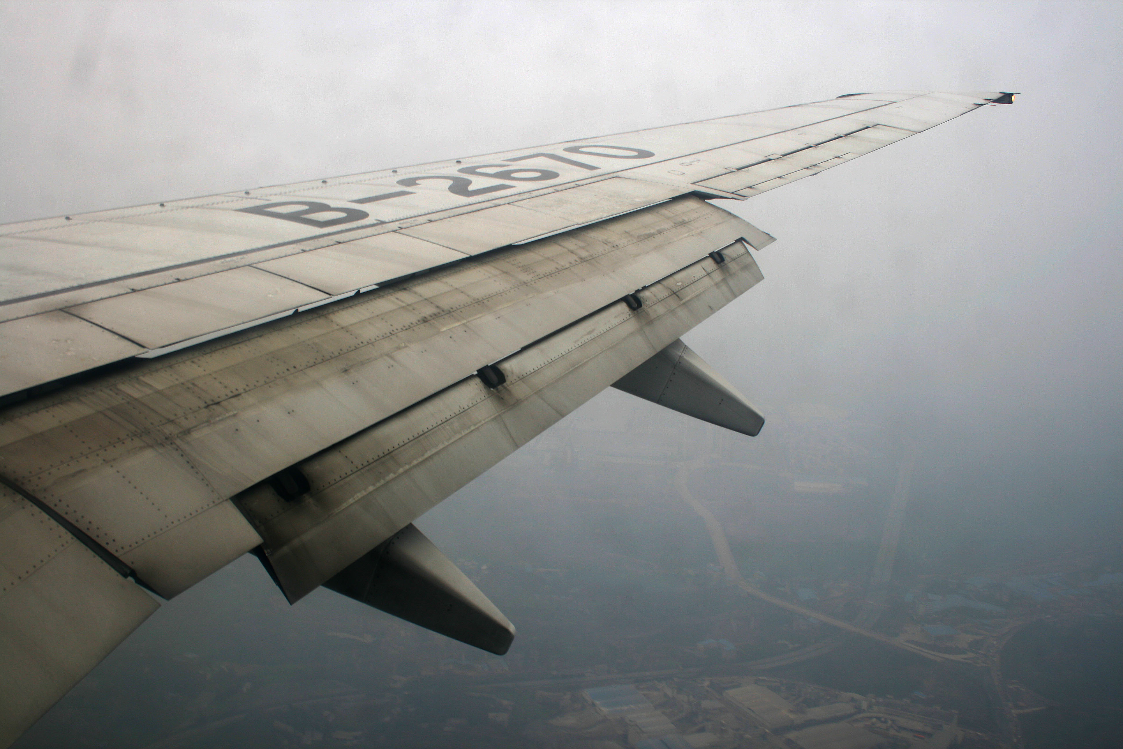 A fully extended double slotted fowler flap before landing on a Boeing 737-800 (B-2670) of Air China